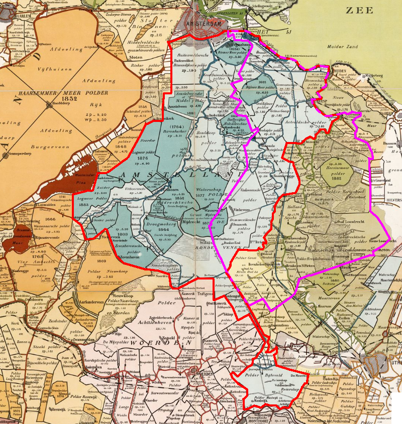 Approx. boundaries "Amstelland"